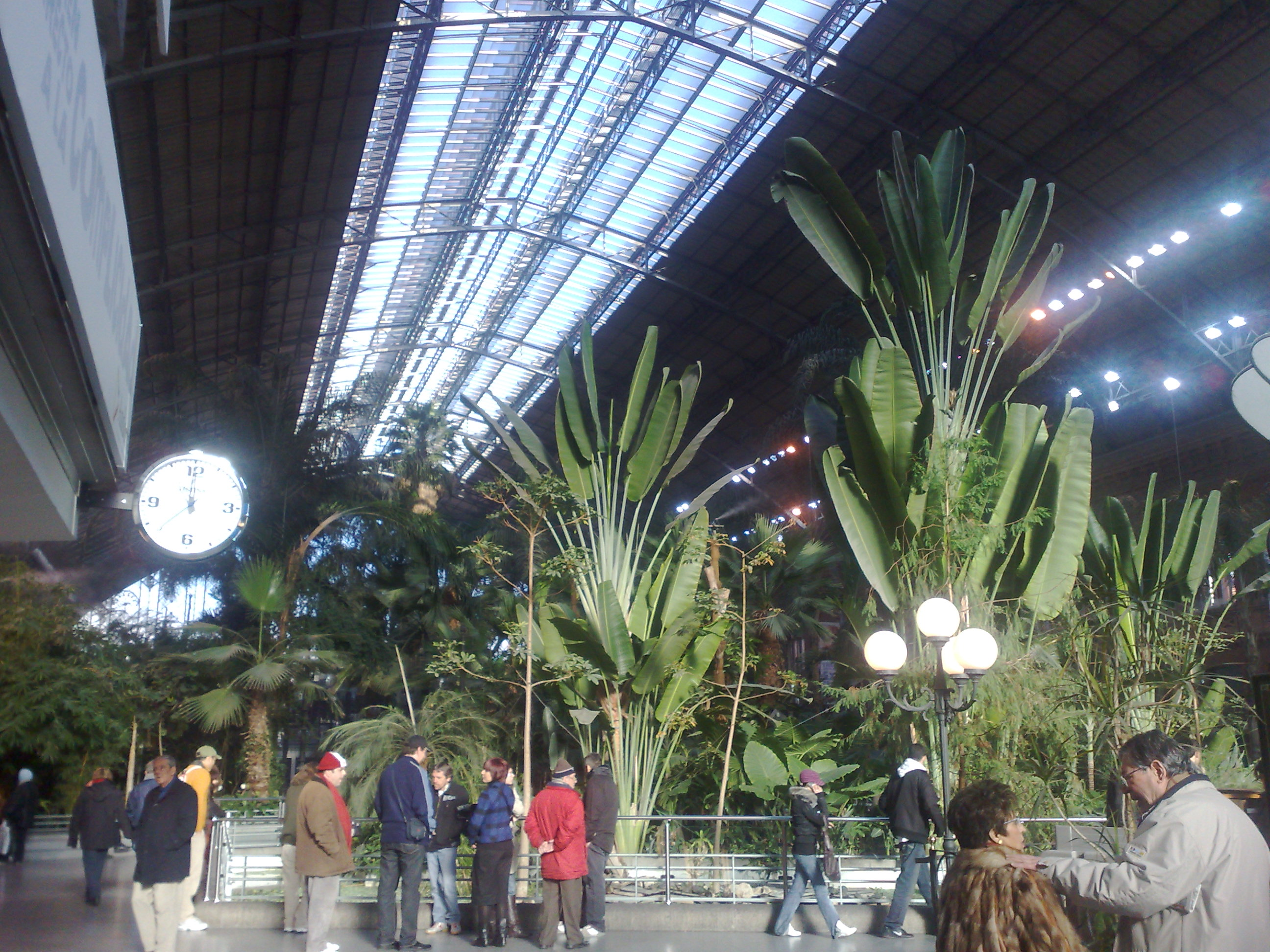 Atocha railway station 16 December 2008 .